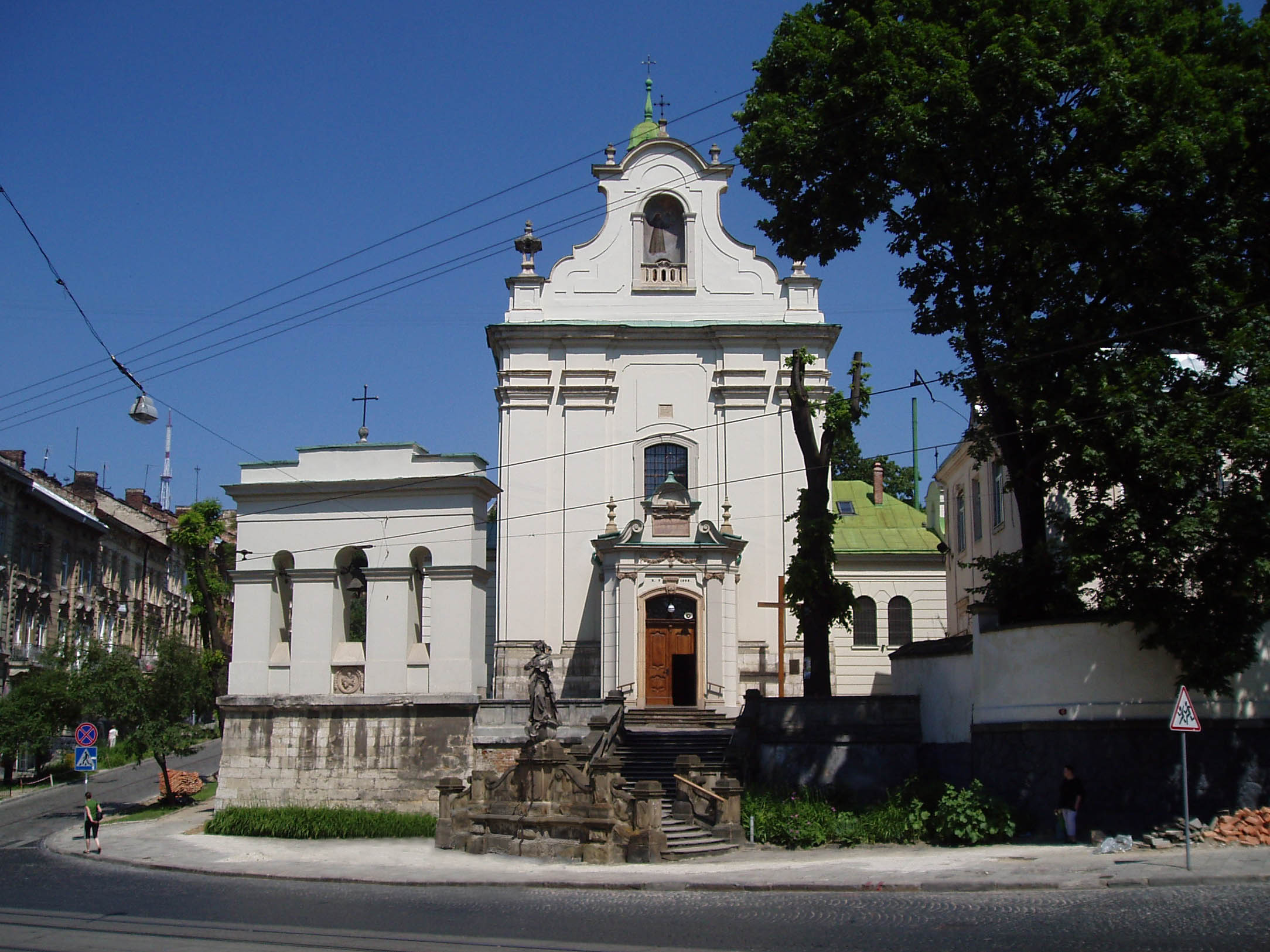 Franciscan church of St. Anthony of Padua in Lviv (Leopolis)